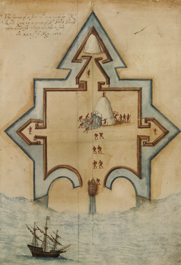 "The forme of a fort wch was mde by M: Ralfe Lane in a parte of St Iohns Ilande neere Capross where we toke in salt the xxvjth of May. 1585." Watercolor by John White. The fort was constructed to protect Ralph Lane's men as they raided Spanish salt mounds on the shore of Salinas Bay, near Cabo Rojo, Puerto Rico.